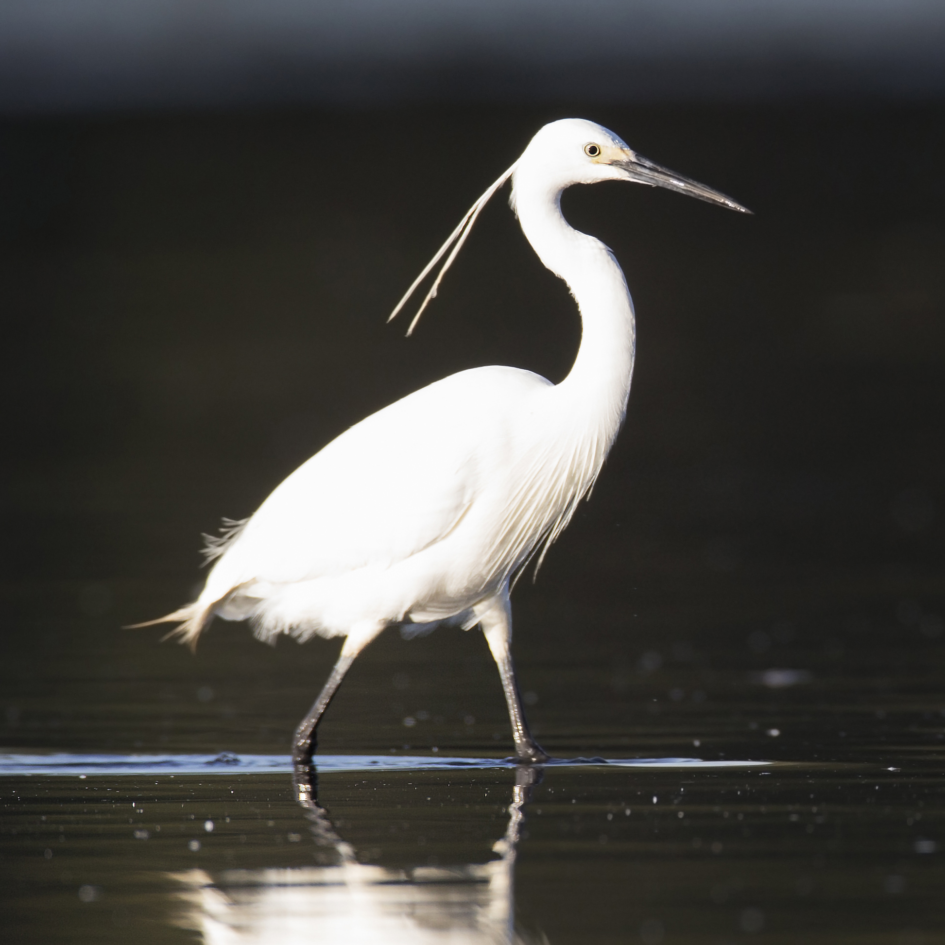 Little Egret (Egretta garzetta), Sydney Olympic Park, New South Wales, Australia